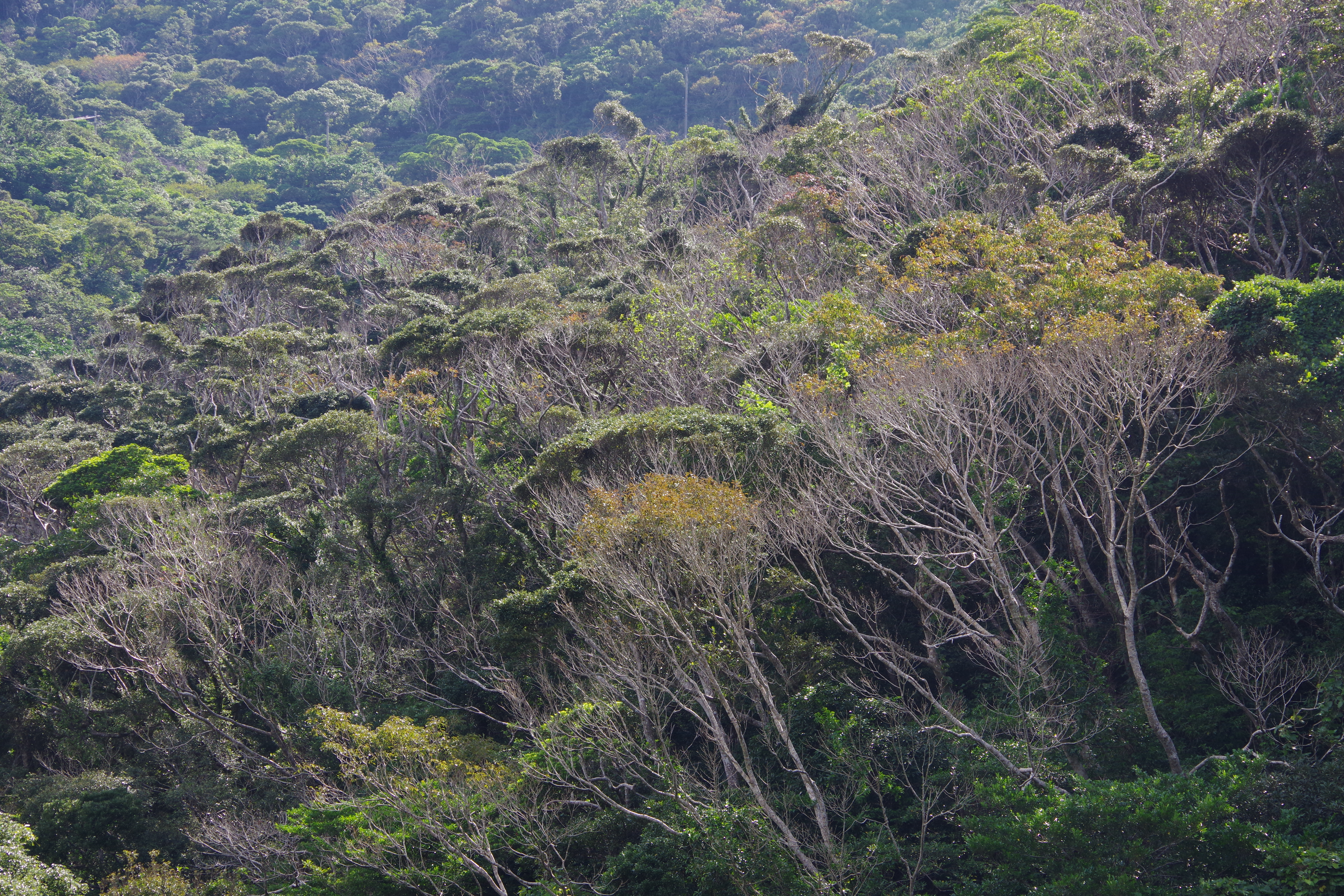 Castanopsis sieboldii, also known as itajii in Okinawa, the dominant tree in a forest of Yambaru, the northern Okinawa Island. Taken at Mount Yae, located in Motobu Peninsula.